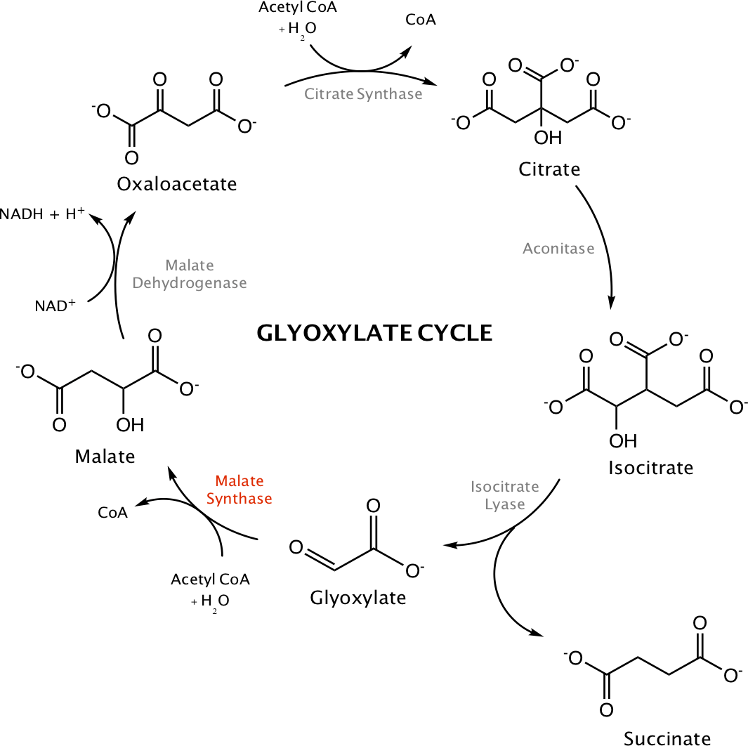 This image depicts the role of malate synthase in the glyoxylate cycle.